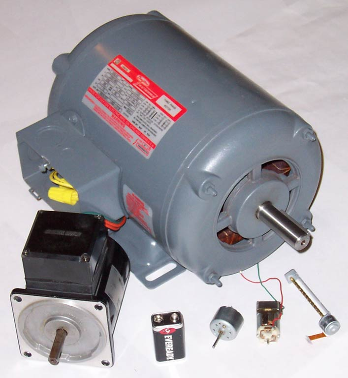 Some samples of electric motor sizes. Common Nine-volt battery in the middle front Largest motor: Three phase AC induction motor rated with 1 Hp (750 W)Next largest: 25 W Small motors: CD player motor, Brushed DC Electric Motor common as toy motors, Stepper motor with worm gear for CD pickup-head traversing